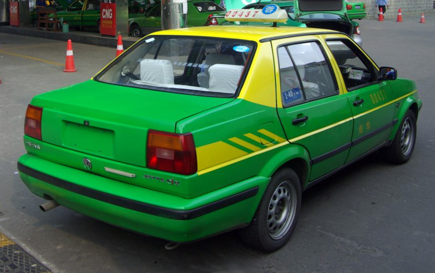 CNG-powered FAW VW Jetta taxi in Chengdu